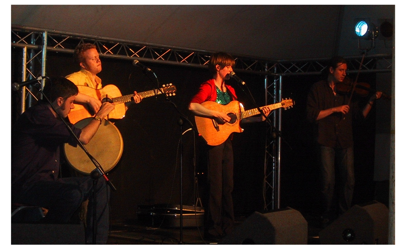 Scottish folk group Malinky performing at Towersey Festival, 2001.